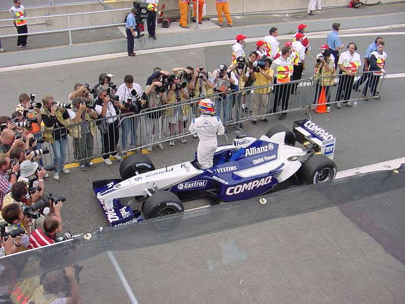 Al Passori, Montreal Grand Prix 2002 photo of Montoya after winning pole position. Car is parked in the pits for weighing and measurement following qualifying.